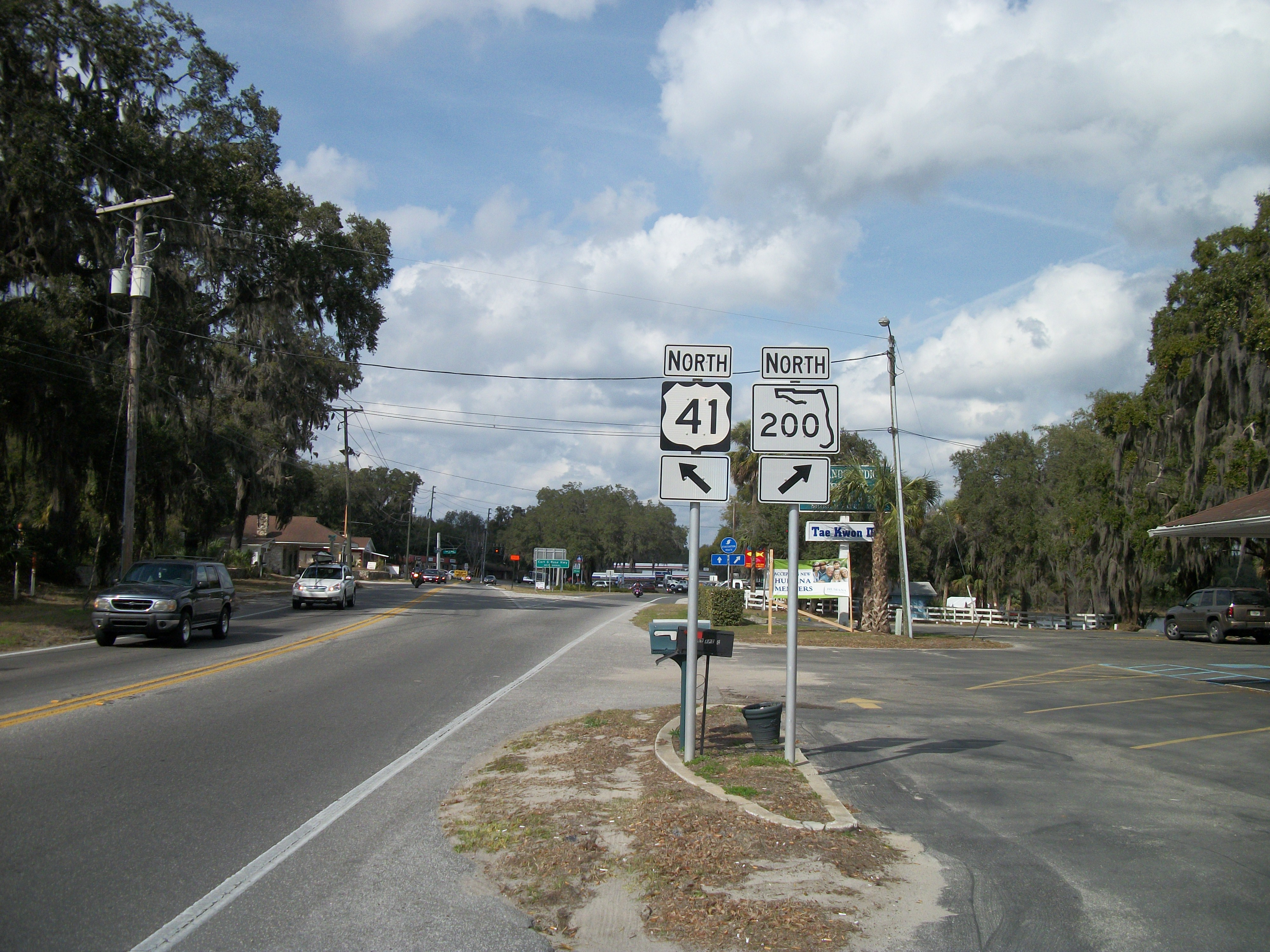 Fork in the road along northbound U.S. Route 41 and Florida State Road 200 in Hernando, Florida. That short section of SR 200 is now a one-lane turning ramp, but until around the turn of the century, it was two-lanes wide. Somewhere I have an picture of this segment being two-lanes, which I will have to add someday.